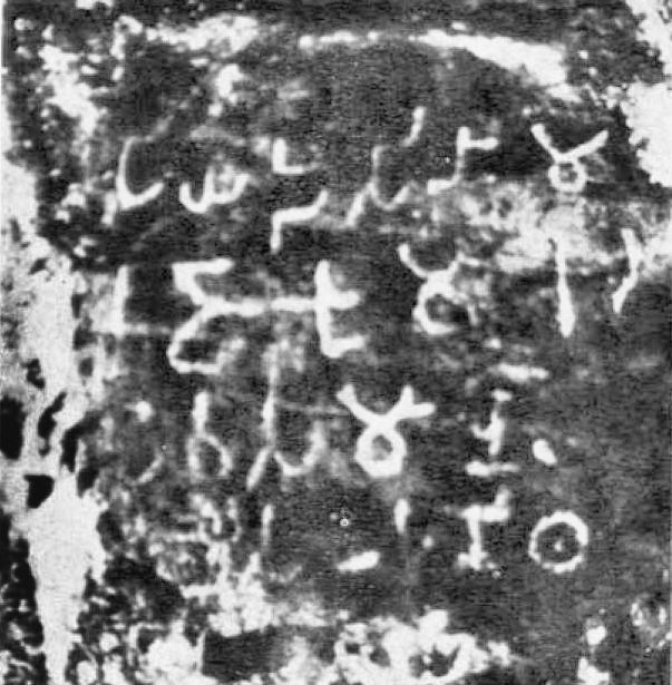 Panguraria Ashoka Minor Rock inscription